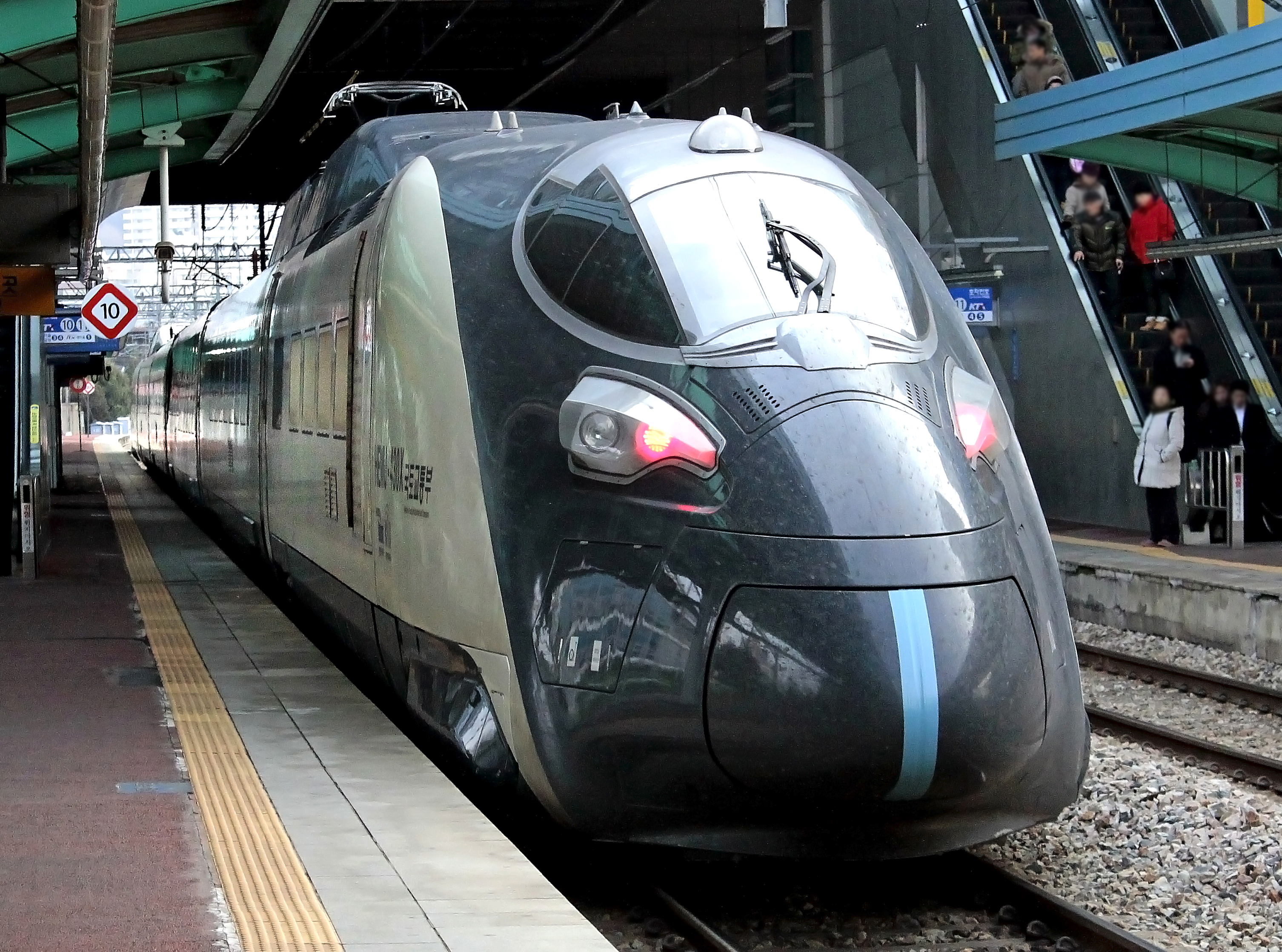 HEMU-430X Test run at Seodaejeon Station